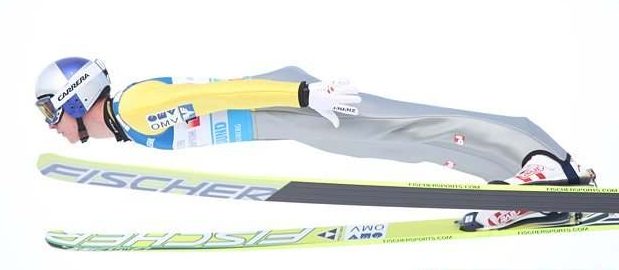 Thomas Morgenstern during team competition of FIS Ski-Flying World Championships 2012 in Vikersund.